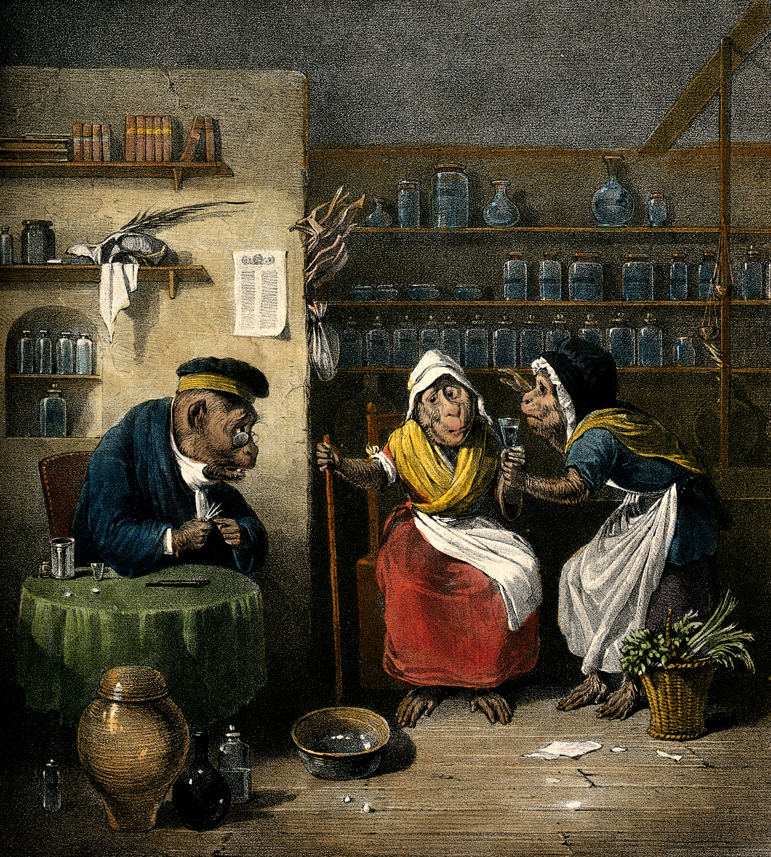 Interior of a phlebotomist's shop with anthropomorphic participants. Coloured lithograph by J.D. Harding after E. Bristowe. Iconographic Collections Keywords: Edmund Bristow; James Duffield Harding